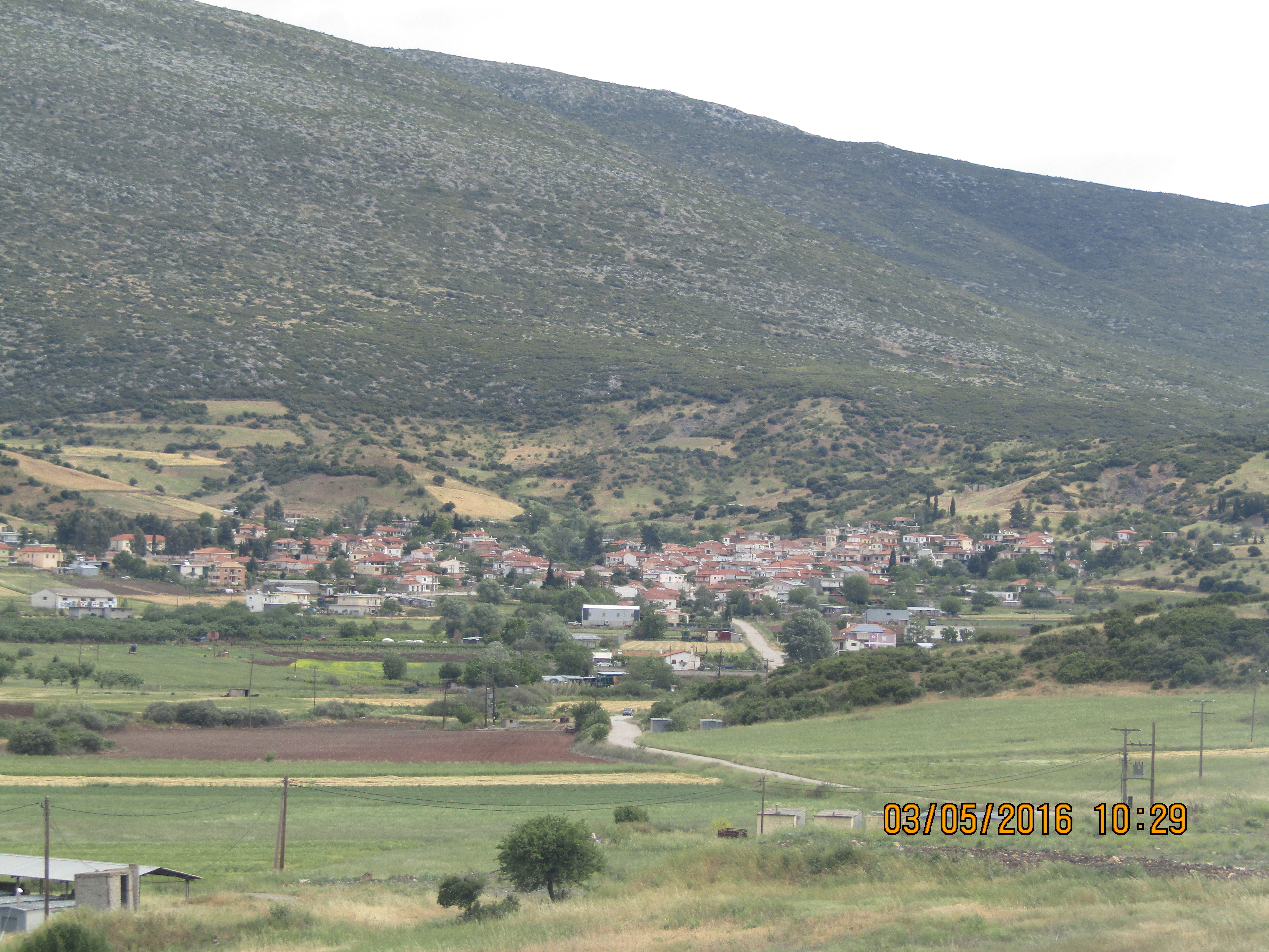 Exarchos village in Pthiotis Greece